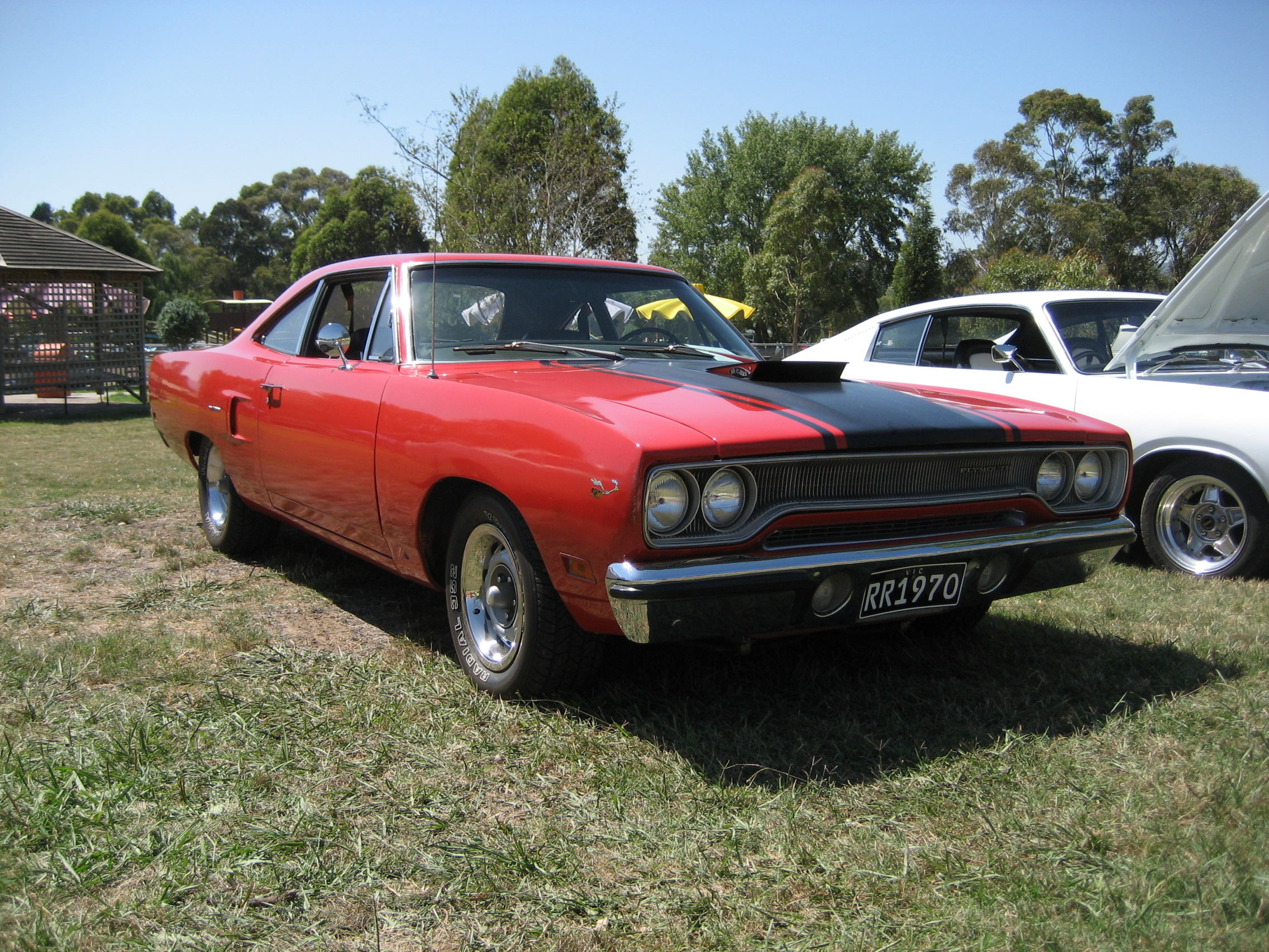 Roadrunners were made from 1968-80, based on the Mopar B body, complete with Beep Beep horn.aimed at the younger market; basic trim but big horsepower. Coupe, Hardtop or Convertible. Engnes; 383, 440 6 pack or 426 Hemi